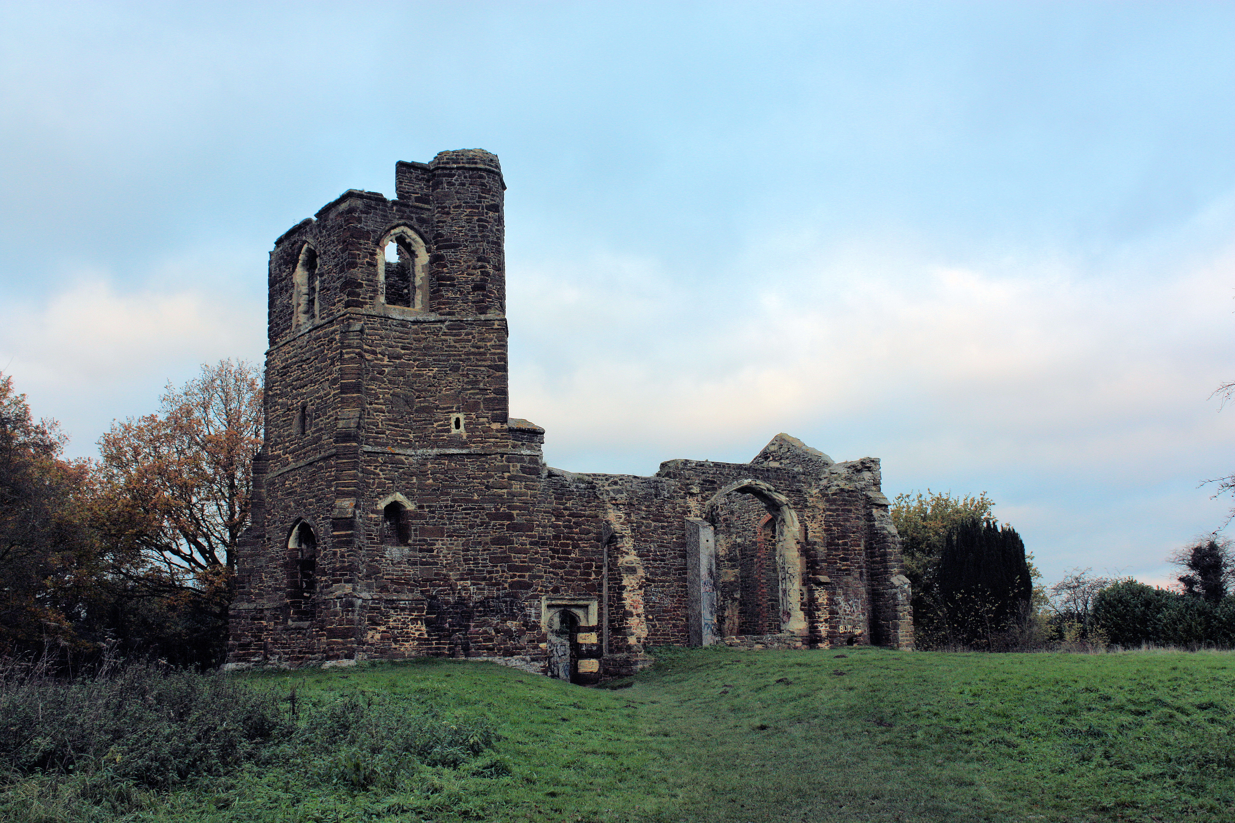 Ruins of St Mary's church, Clophill